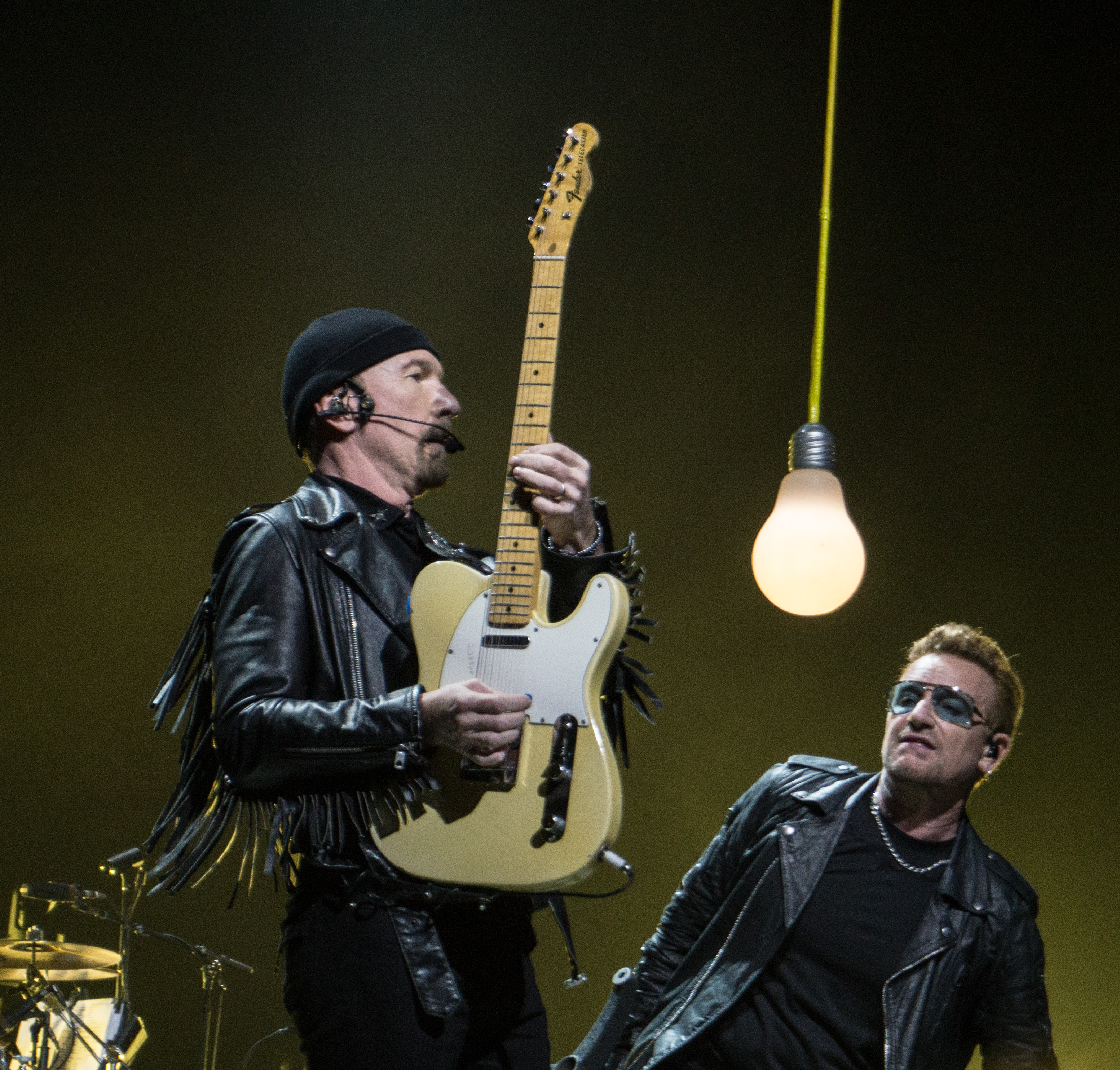 The Edge and Bono of Irish rock band U2 perform in Belfast, Northern Ireland on November 19, 2015 during the band's Innocence + Experience Tour